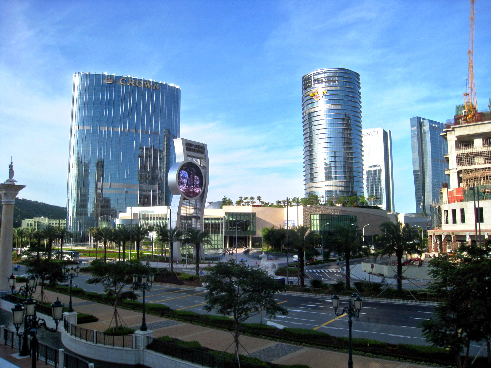 The City of Dreams 新濠天地